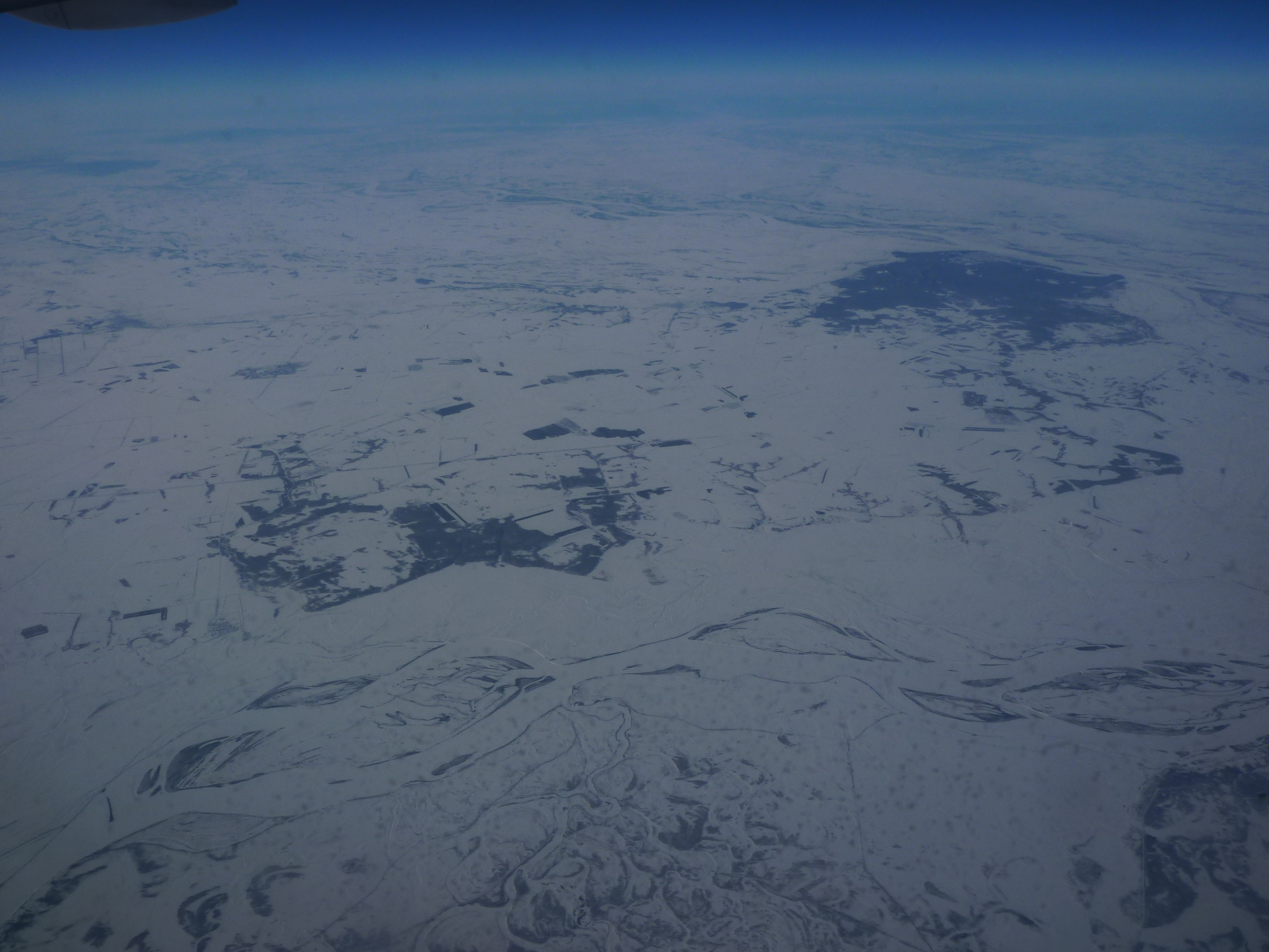 The Ussuri (Wusuli) River some 50 km SW of Khabarovsk. Looking roughly west or WNW, from the Russian side to the Chinese side. The Kiya River (coming from the Russian side) falls into the Ussuri a bit below and to the left of the center of the photo. Photo taken from an AA aircraft on a non-stop ORD-PVG flight.